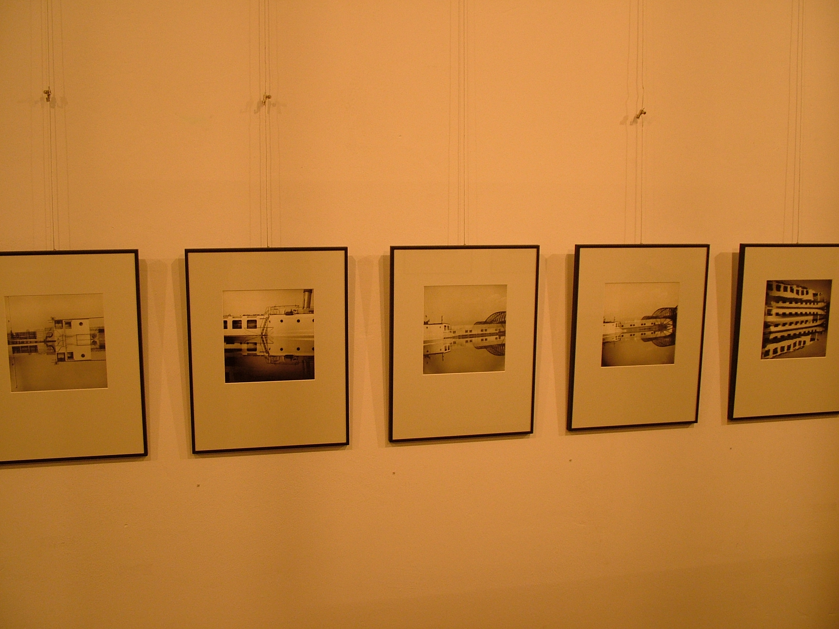 Jaroslav Rössler in Galerie Louvre, Prague